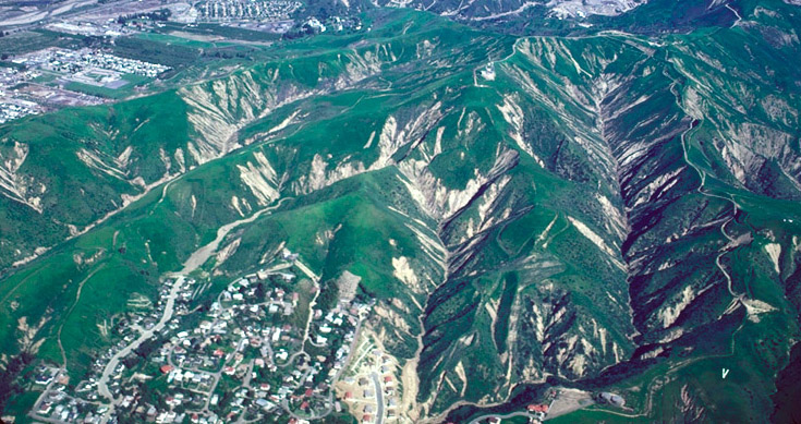 Debris flow scars formed in 1968-1969 in greater Los Angeles. The image taken months after the debris flows occurred.